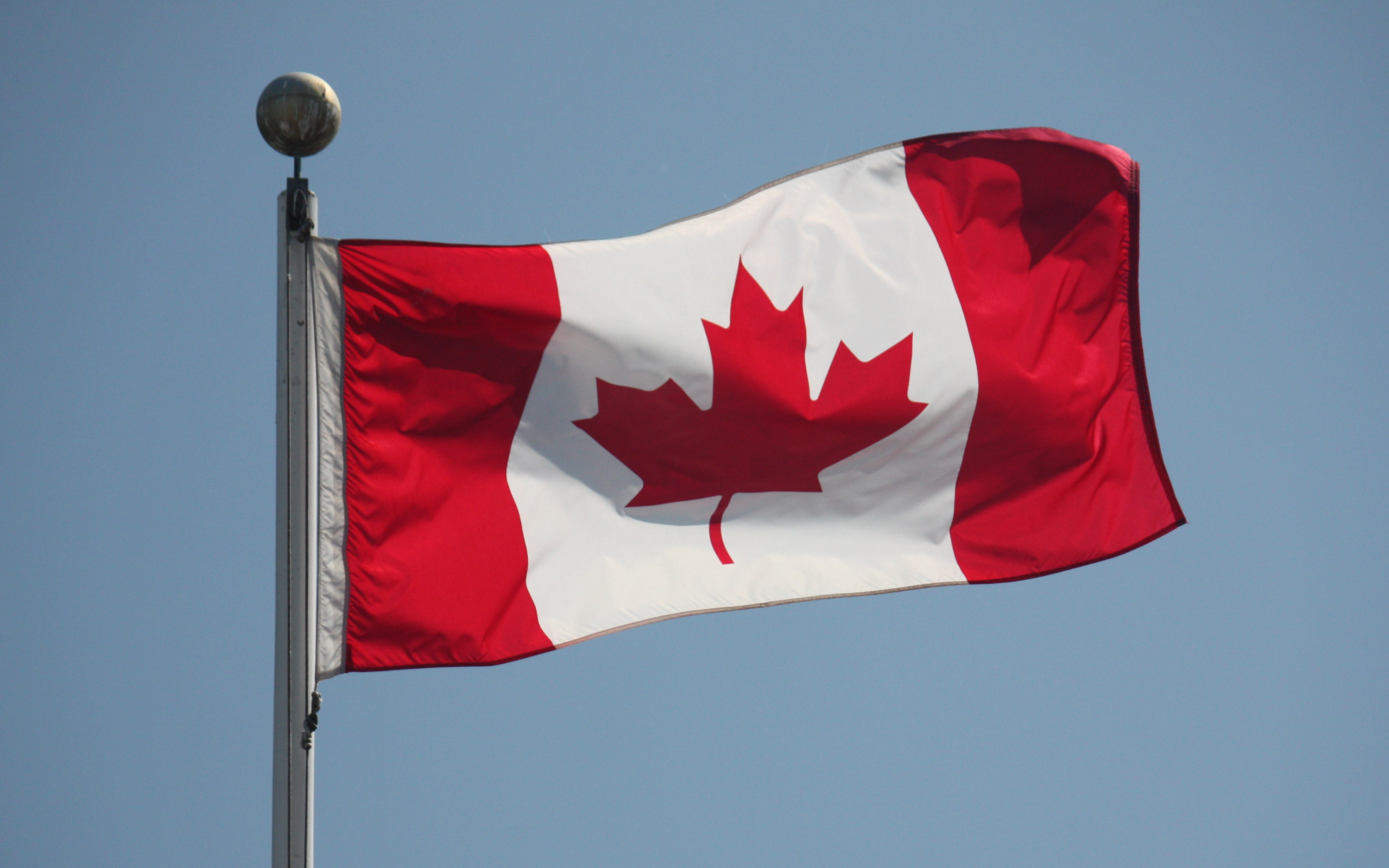 The flag of Canada, flying in Vanier Park, near downtown Vancouver